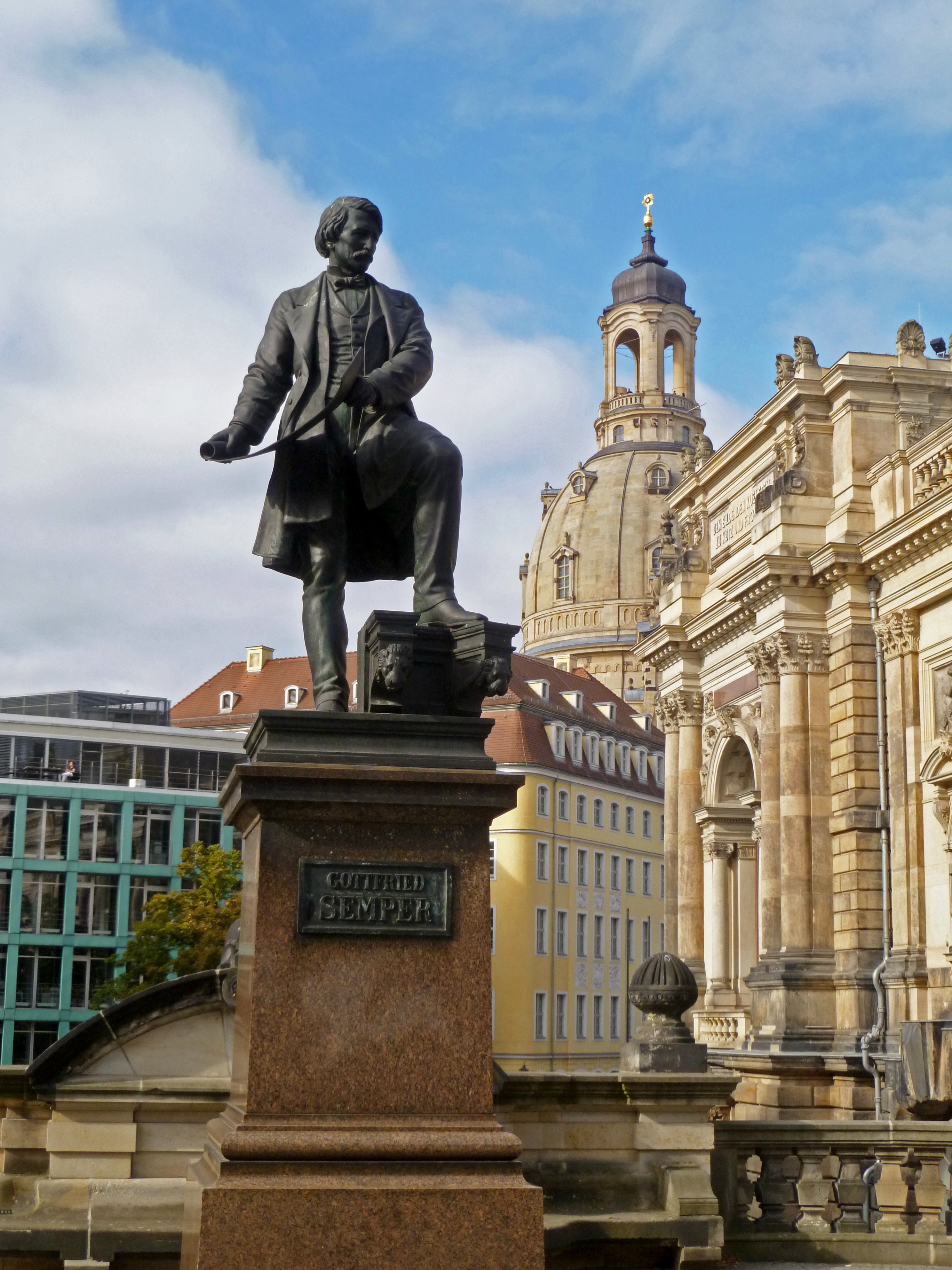 Statue of Gottfried Semper on the Brühl's terrace, by Johannes Schilling; in the background: Hochschule für Bildende Künste and the Frauenkirche; Dresden, Germany